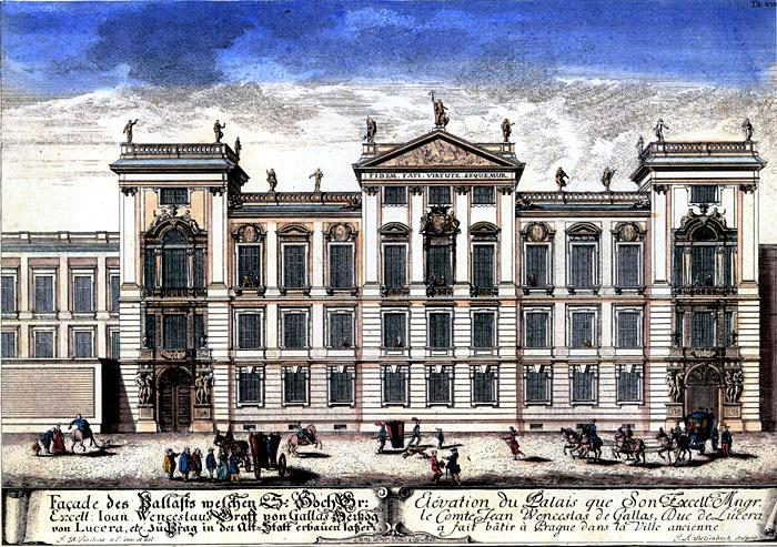 Fischer von Erlach's original design for Clam-Gallas Palace in Prague (1713).